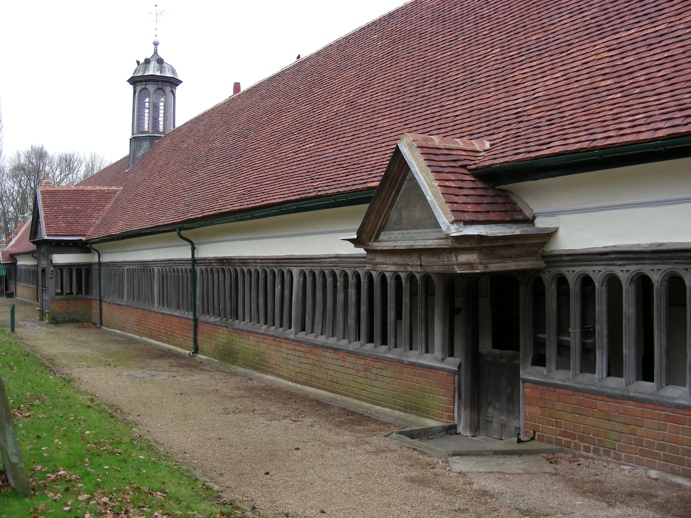 Long Alley Almshouses, West St Helen Street, Abingdon, Oxfordshire (formerly Berkshire), seen from the north